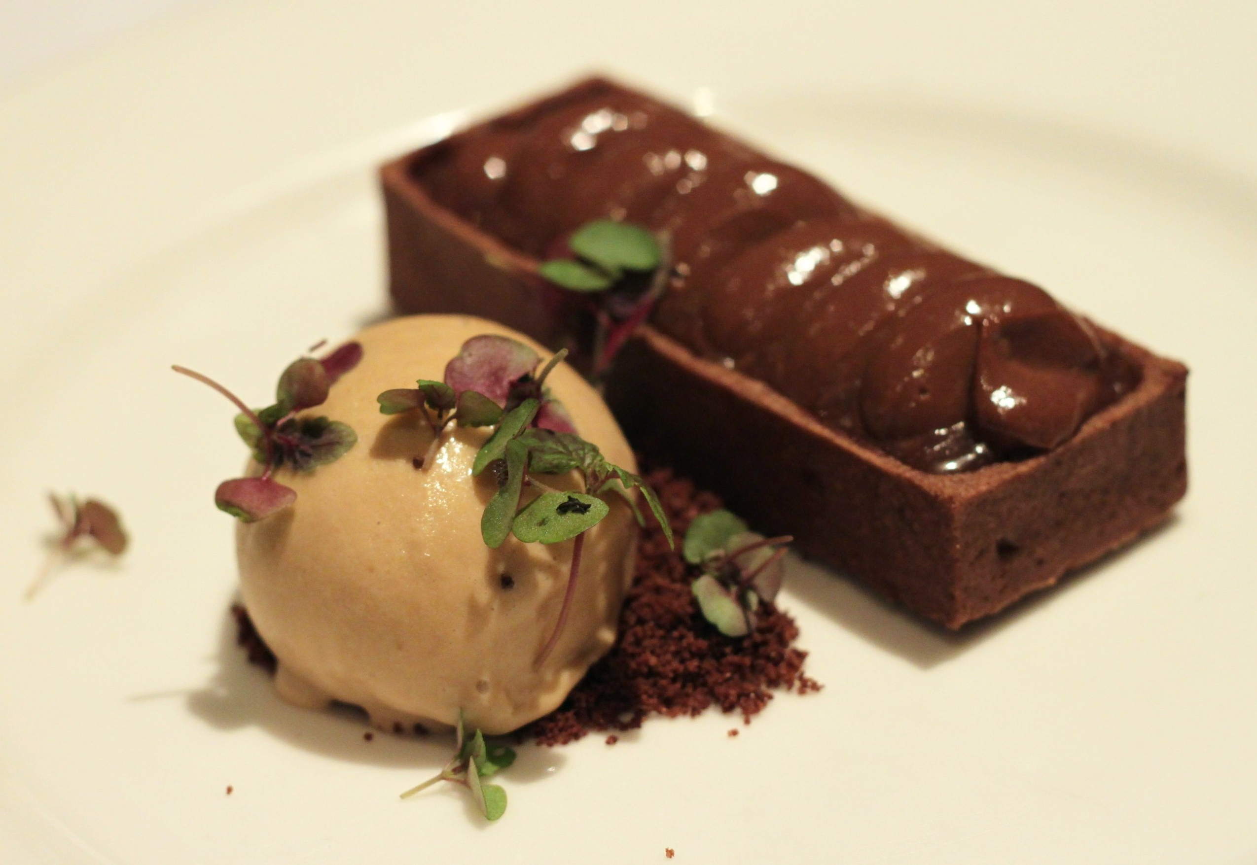 Caramel tart, rich chocolate mousse and “BDG” beer ice cream